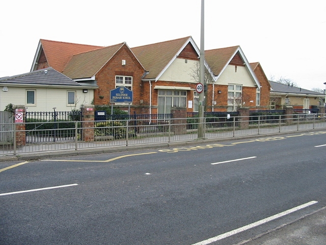 Sellindge primary school on the A20